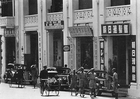 A street in Syonan-to (昭南島, Shōnan-tō) (Singapore) during the Japanese occupation of Singapore.